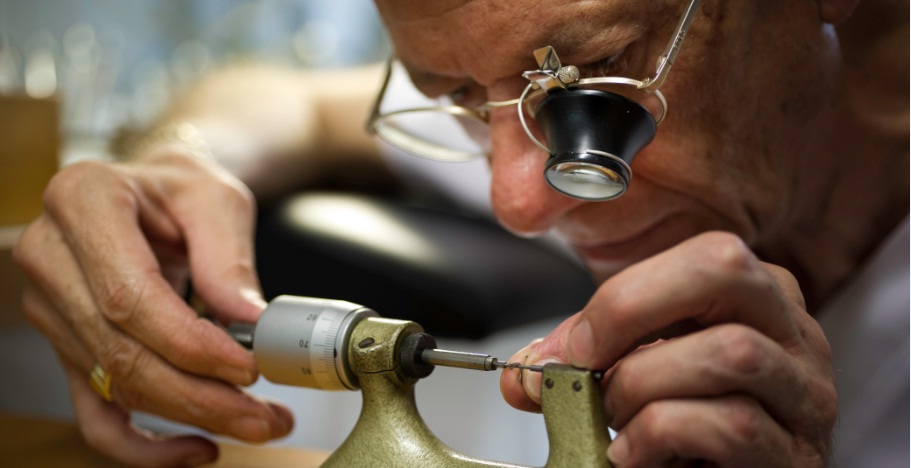 Dominique Loiseau at work